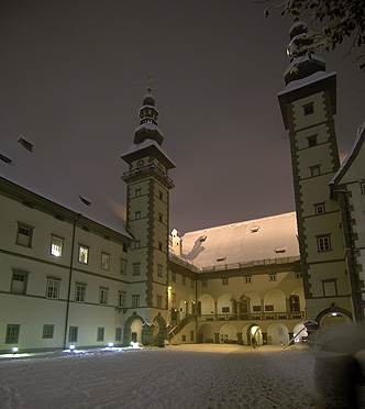 Bildbeschreibung: Landhaus Klagenfurt, Hof - Inner court of the regional parlament 13:28, 8. Jan 2006 Eixi 332 x 372 (69440 Byte) (* Bildbeschreibung: Landhaus Klagenfurt, Hof * upload by ~~~~ with the permission of the photographer * Fotograf: Helge Bauer, )